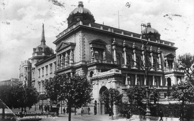 Beograd, around 1926 - The old Court Palace in which the City Assembly of Belgrade is situated today Catalog number:Zf. A-II-12